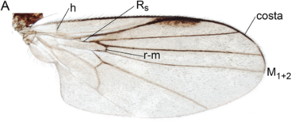 Atelestidae wing showing the costa and M1+2.